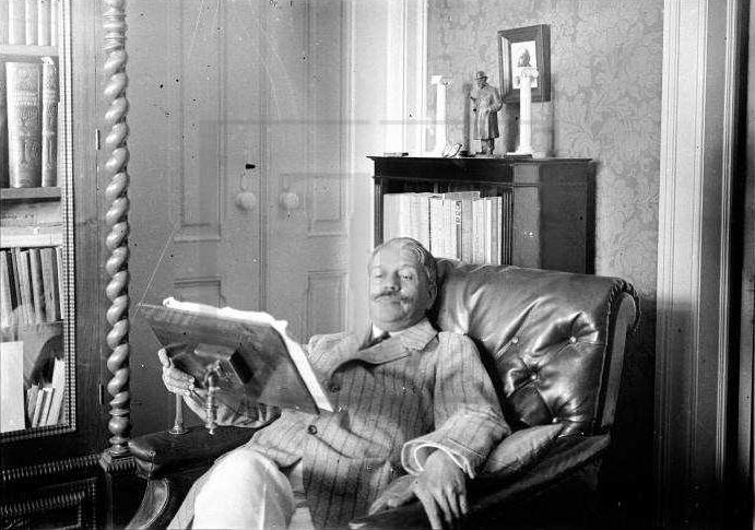 João Chagas (1863-1925), during his "reading hours", c. 1911/11.